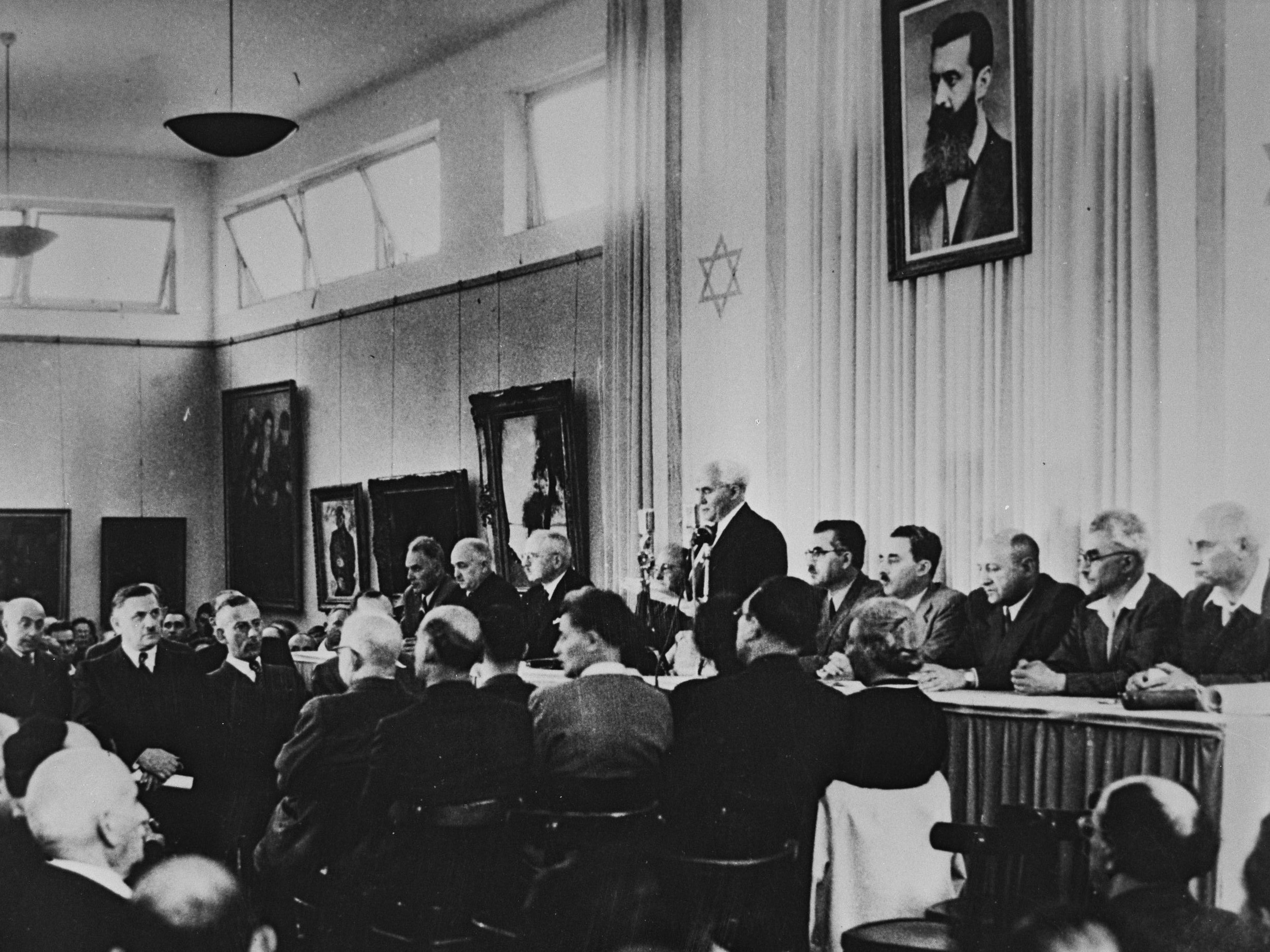 David Ben Gurion flanked by the members of his provisional government reading the Declaration of Independence in the Tel Aviv Museum Hall.